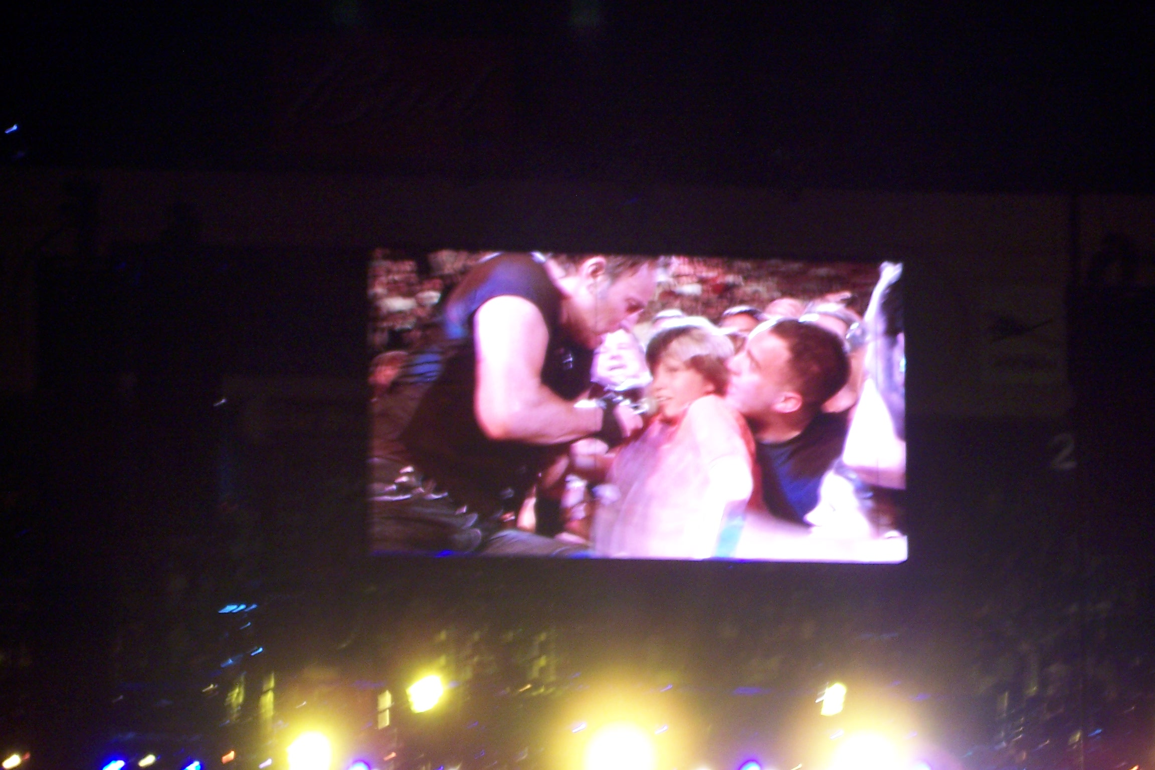 Bruce Springsteen letting a young child sing "Waitin' on a Sunny Day" as he and the E Street Band perform the song at Meadowlands Arena in New Jersey during their Working on a Dream Tour.